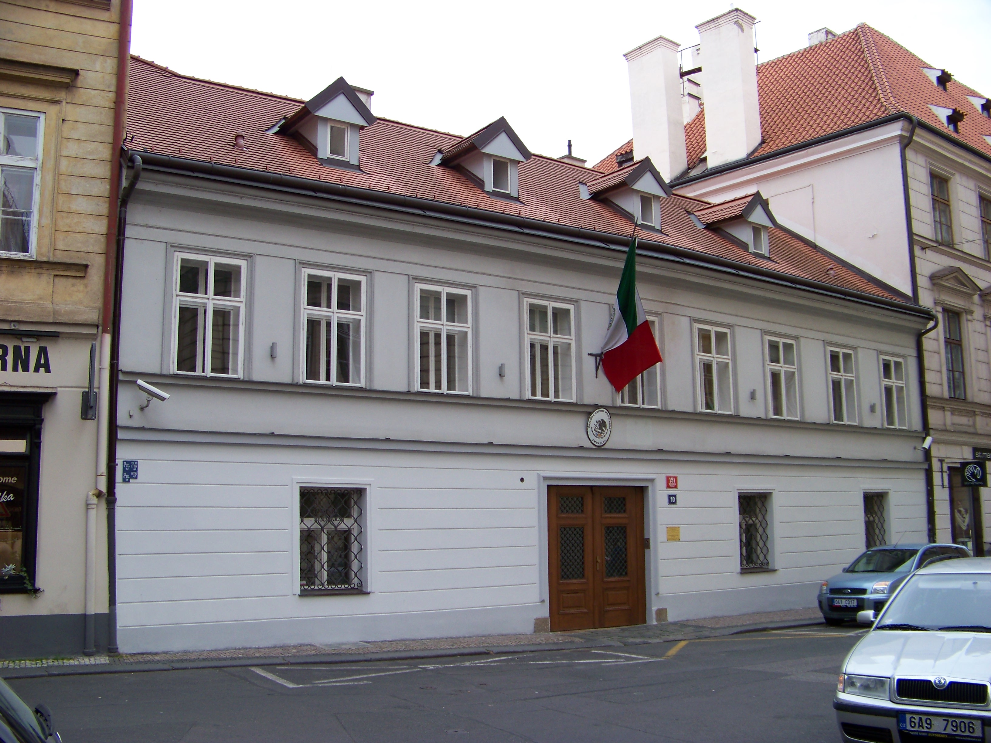 Prague-New Town. V jirchářích 151/10.